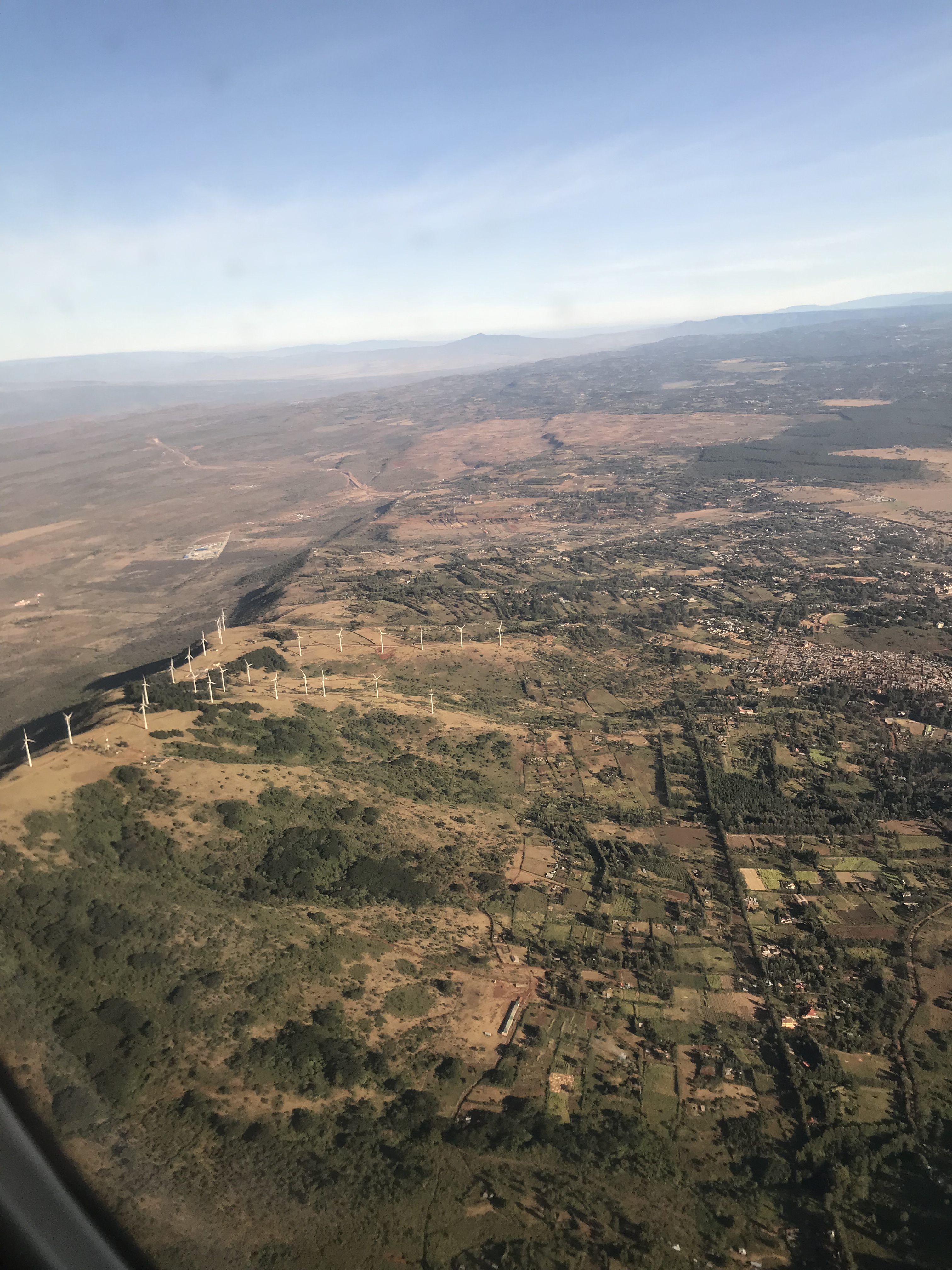 This is an image with the theme "Africa on the Move or Transport" from: Kenya